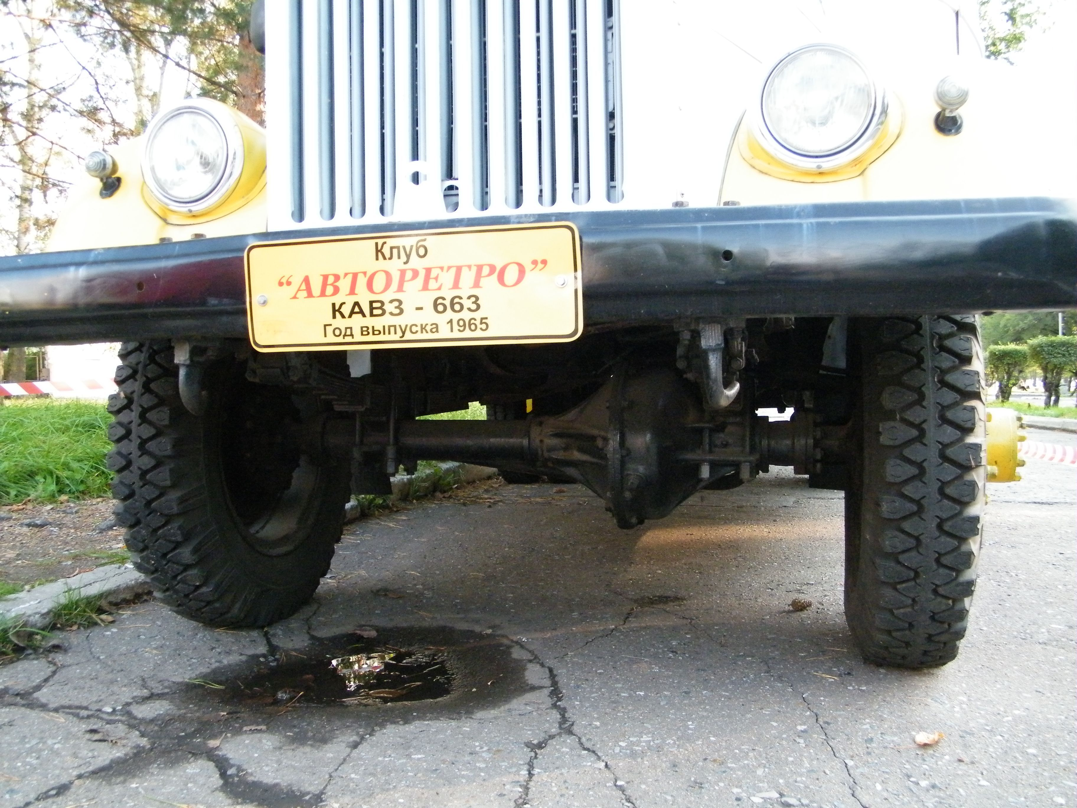 КаВЗ-663 передний мост